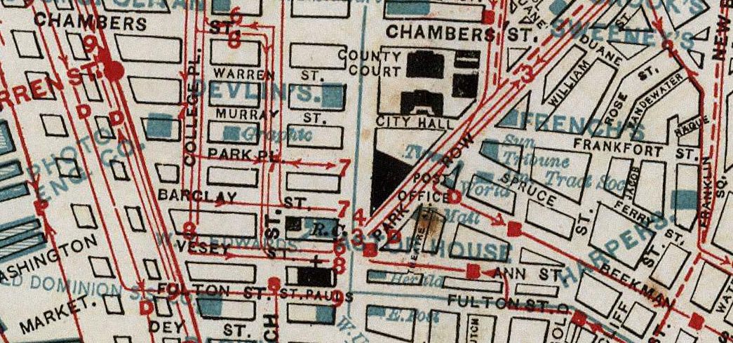 Detail of 1877 map of New York City by D.A. Esdall, showing location of Daily Graphic newspaper offices on Park Place, as well as other newspapers to east on Park Row